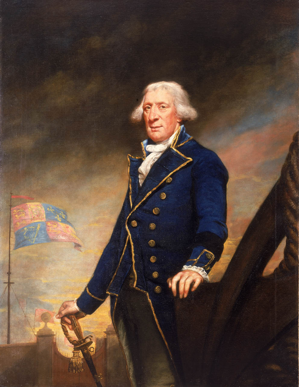 A three-quarter-length to left portrait of Saxton wearing a blue coat with silver edging, and breeches, probably his uniform as commissioner. His left hand is on an anchor fluke, while his right rests on a dress sword. He wears his own white hair. In the left background are the main gates of Portsmouth dockyard, where Saxton was commissioner from 1789 until 1806. The royal standard on a staff commemorates a visit by King George III.